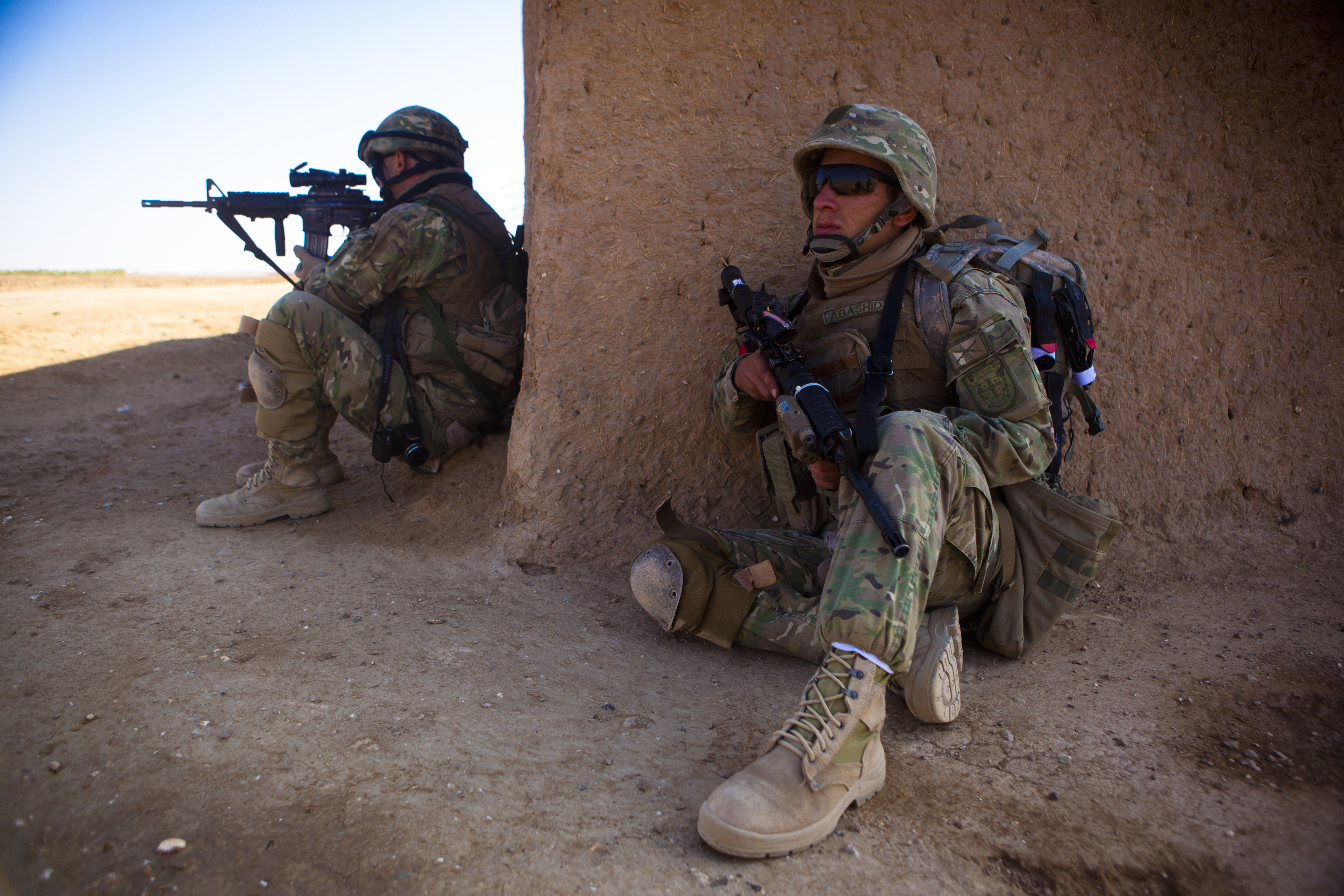 Georgian soldiers with the Batumi Light Infantry Battalion, Regional Command (Southwest), post up against the corner of a desert compound during a patrol near Combat Outpost Eredvi, Helmand province, Afghanistan, Nov. 7, 2013. Battalion personnel started preparations for their deployment to Afghanistan in January 2013, when they paired with Marine advisors to train for their security mission.